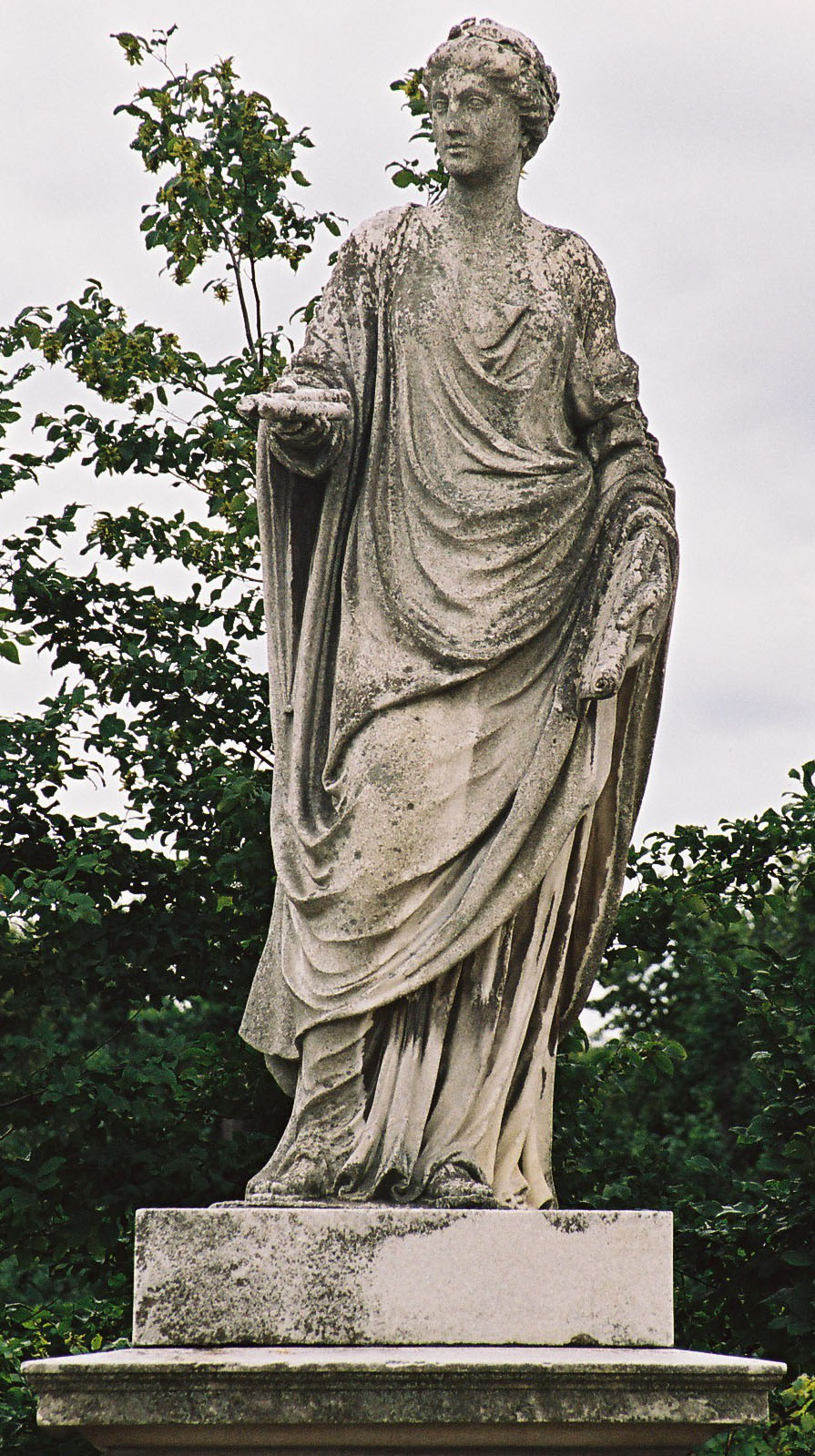 Vienna, Schönbrunn gardens, statue Calliope